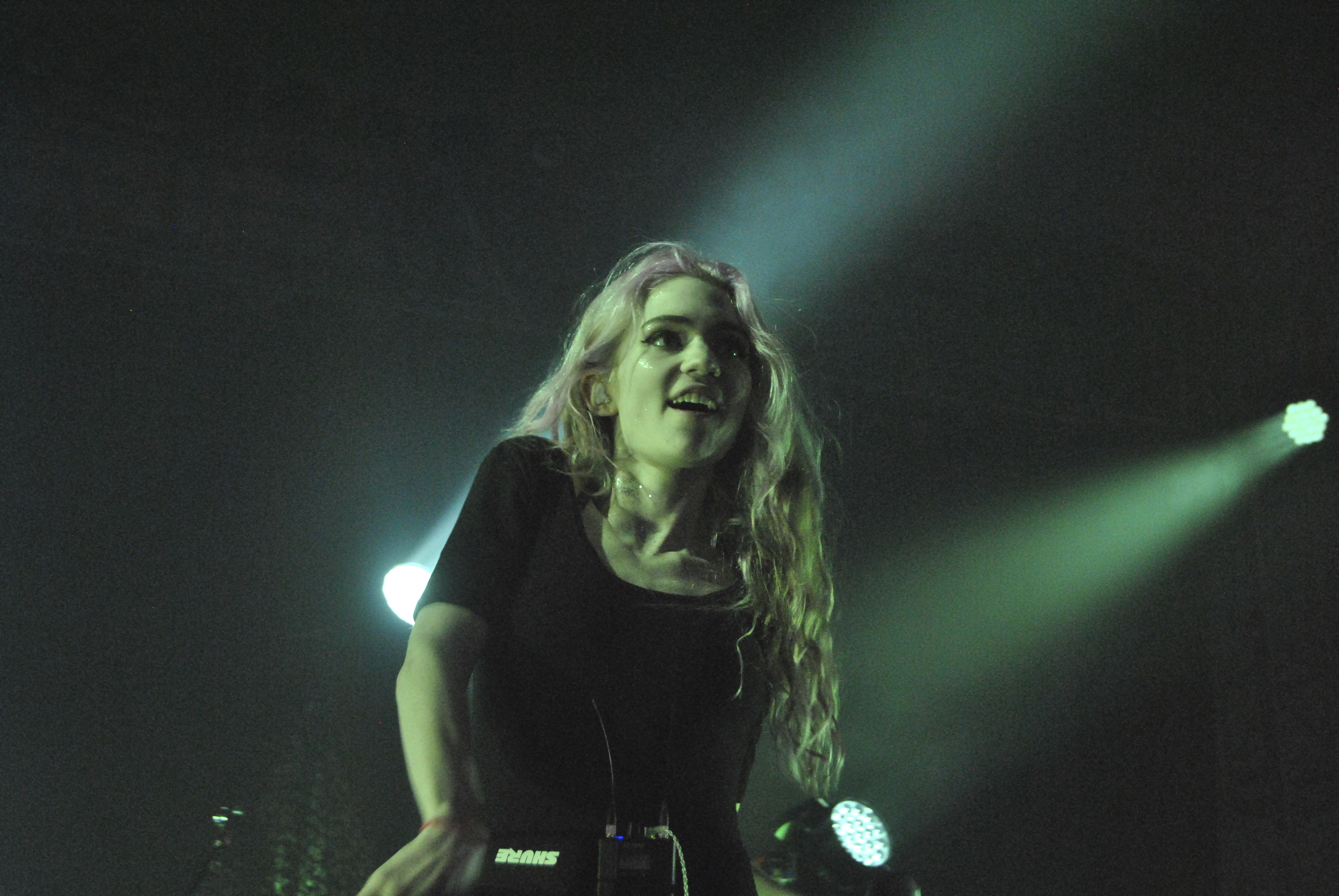 Grimes performing at the Governors Ball Music Festival in New York City, June 2014.